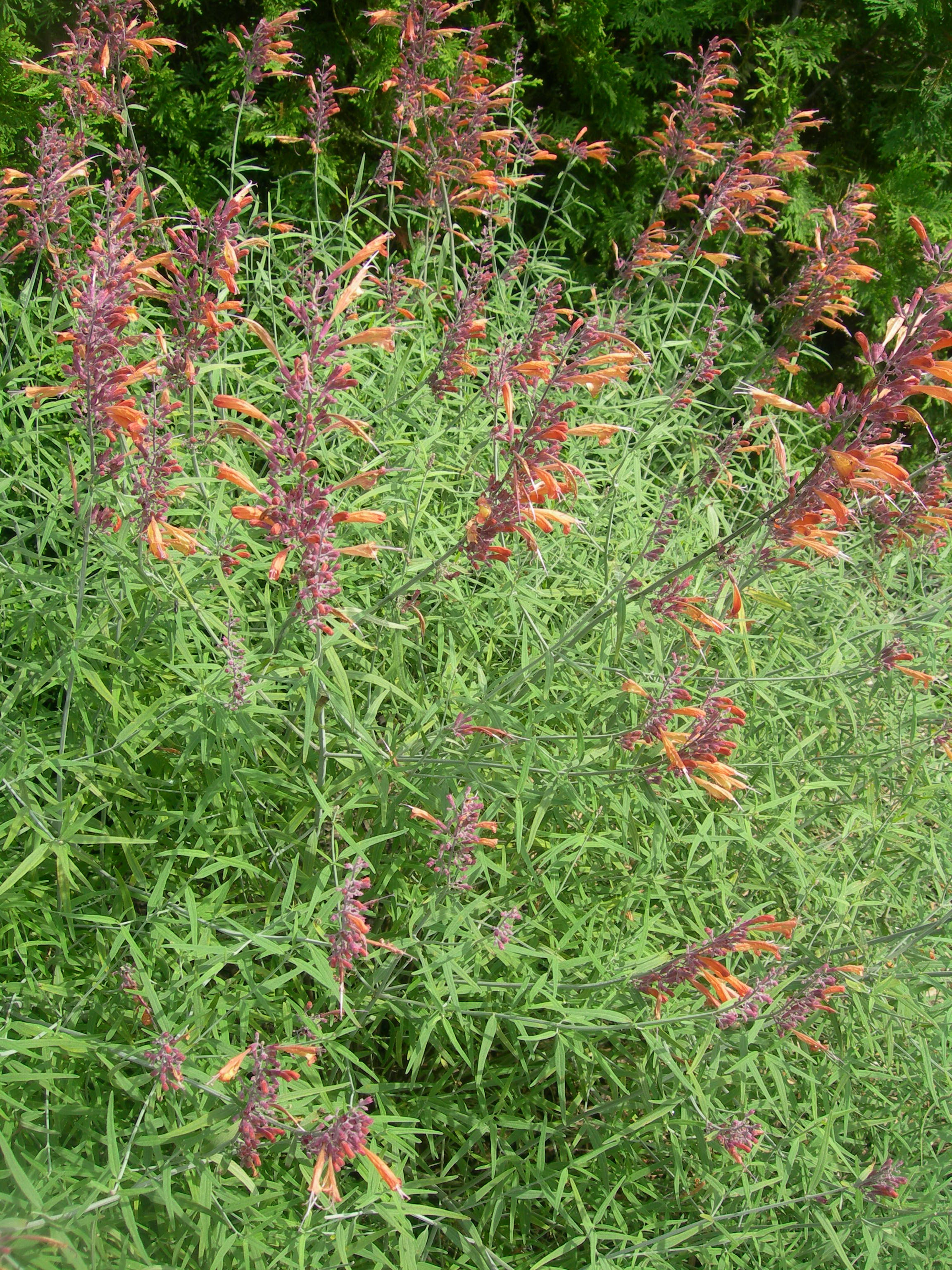 Threadleaf giant hyssop